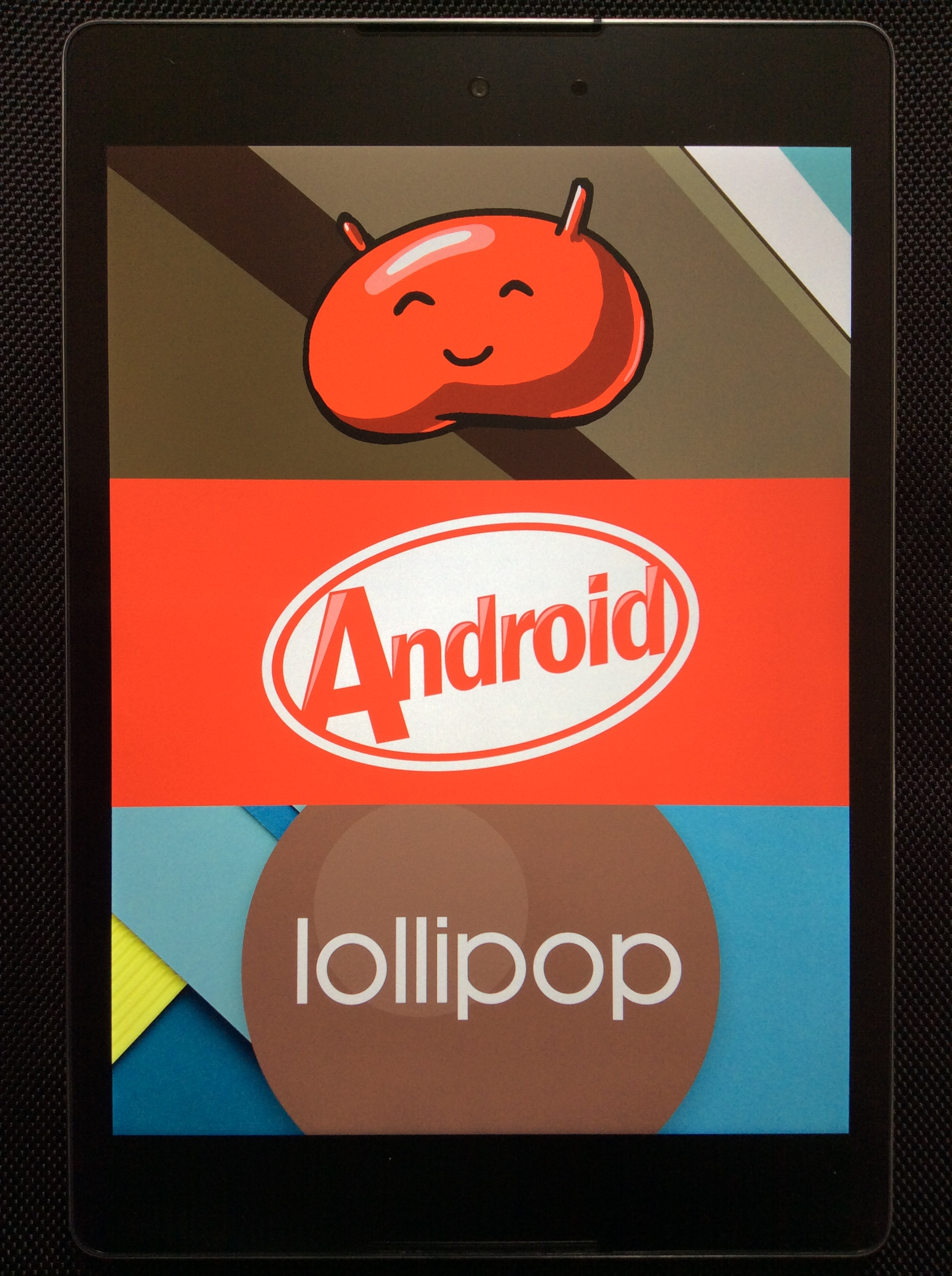 Nexus 9 - Google & HTC